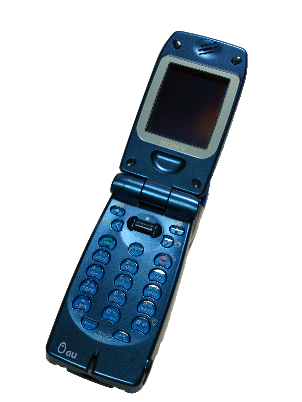 C404S DIVA